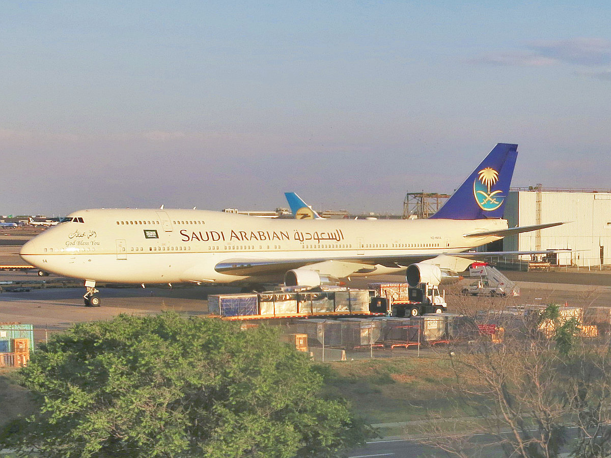 LocationJohn F. Kennedy International Airport (JFK/KJFK), New York City, United States of AmericaAircraft typeBoeing 747-3G1OperatorSaudia (Saudi Arabian Government)RegistrationHZ-HM1AActivityParkedTypePhotographDescriptionA Saudi Arabian Government Boeing 747-300 is parked at John F. Kennedy International Airport between Buildings 260 and 261. As of the time of this picture, this particular Boeing 747-300 is one of just six examples still flying.Date24 June 2016, 19:33:57PhotographerAdam Moreira (AEMoreira042281)SourceOwn workConstruction number23070Line number592A Saudi Arabian Government Boeing 747-300 is parked at John F. Kennedy International Airport between Buildings 260 and 261. As of the time of this picture, this particular Boeing 747-300 is one of just six examples still flying.